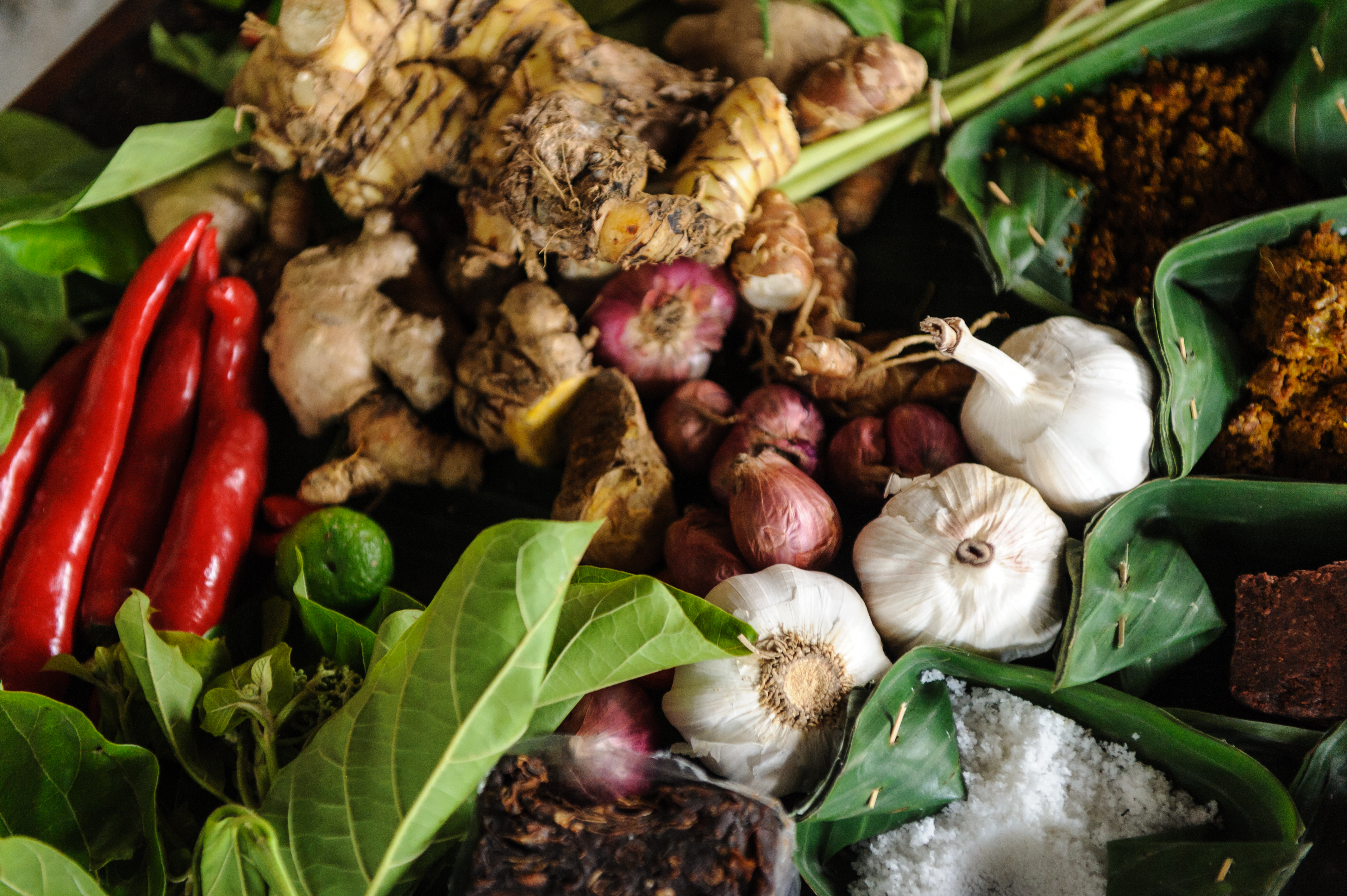 Spices for cooking Indonesian food. 'Cooking with Banana Leaves', Ubud Readers and Writers Festival, Ubud, Bali, Indonesia, 12/10/2013.